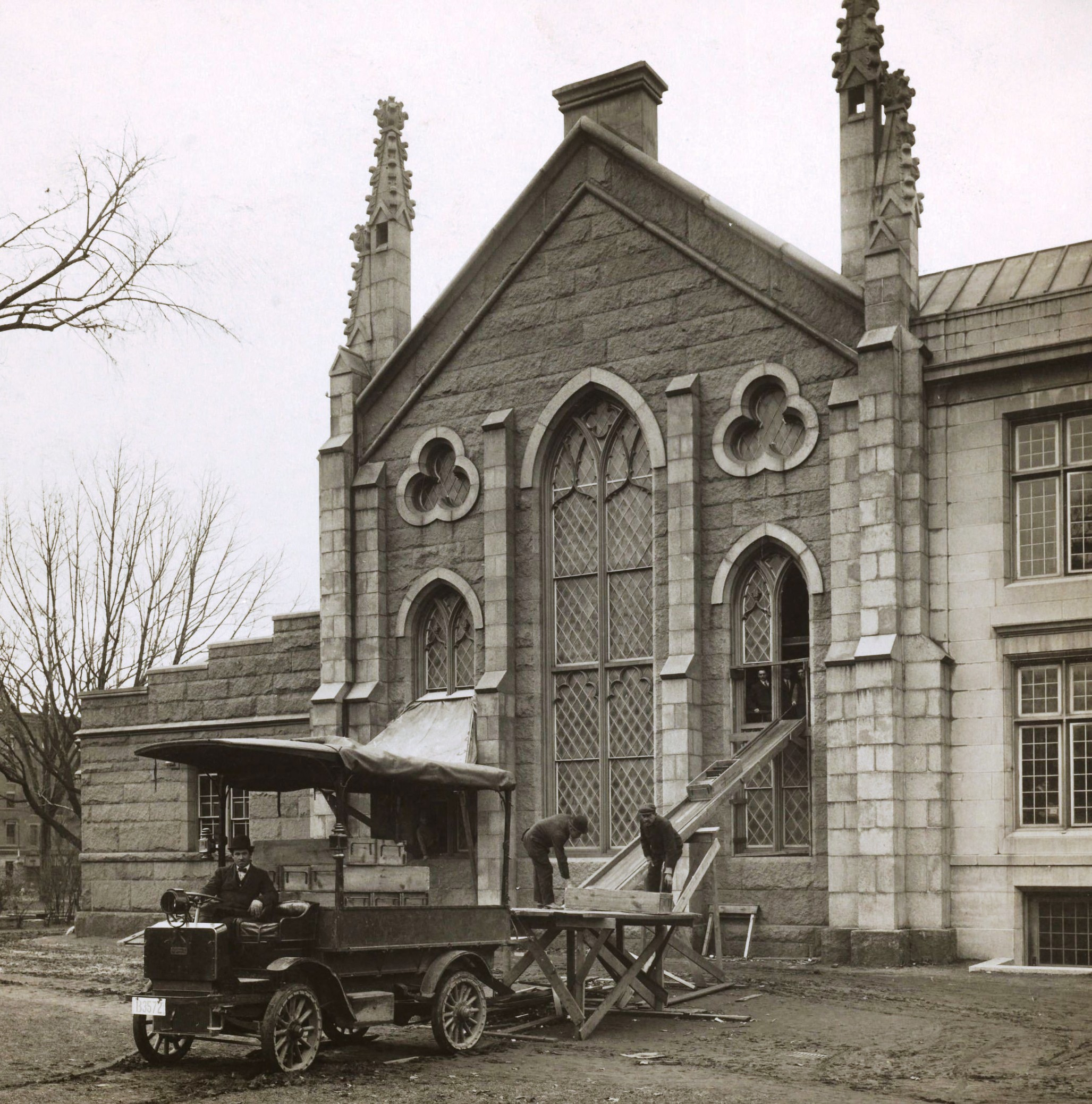 Removing books from Gore Hall prior to its demolition. Harvard University Archives Photograph Collection: Views, circa 1850-2004. HUV 48 (17-1)